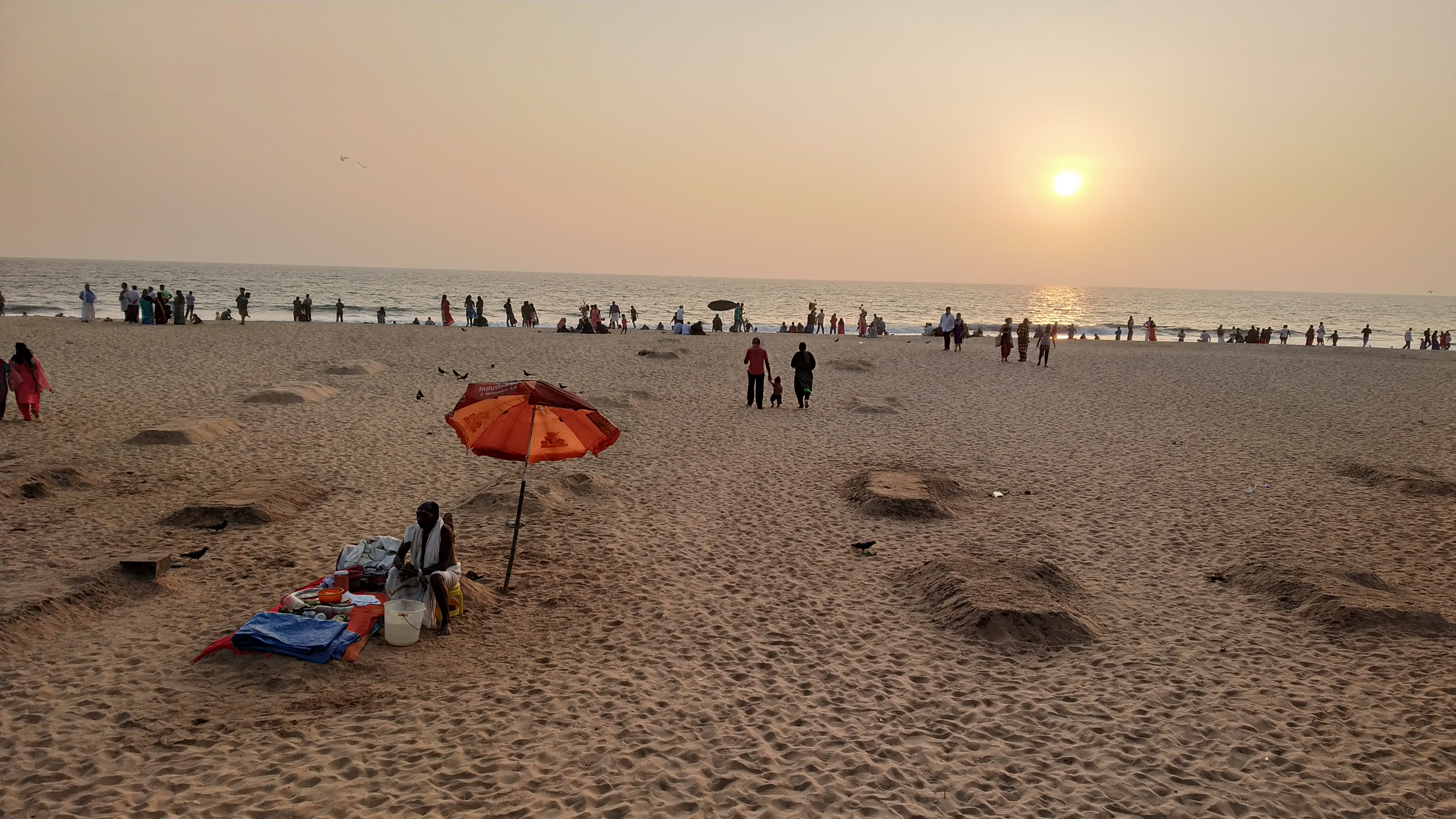 Sunset @ Varkala beach